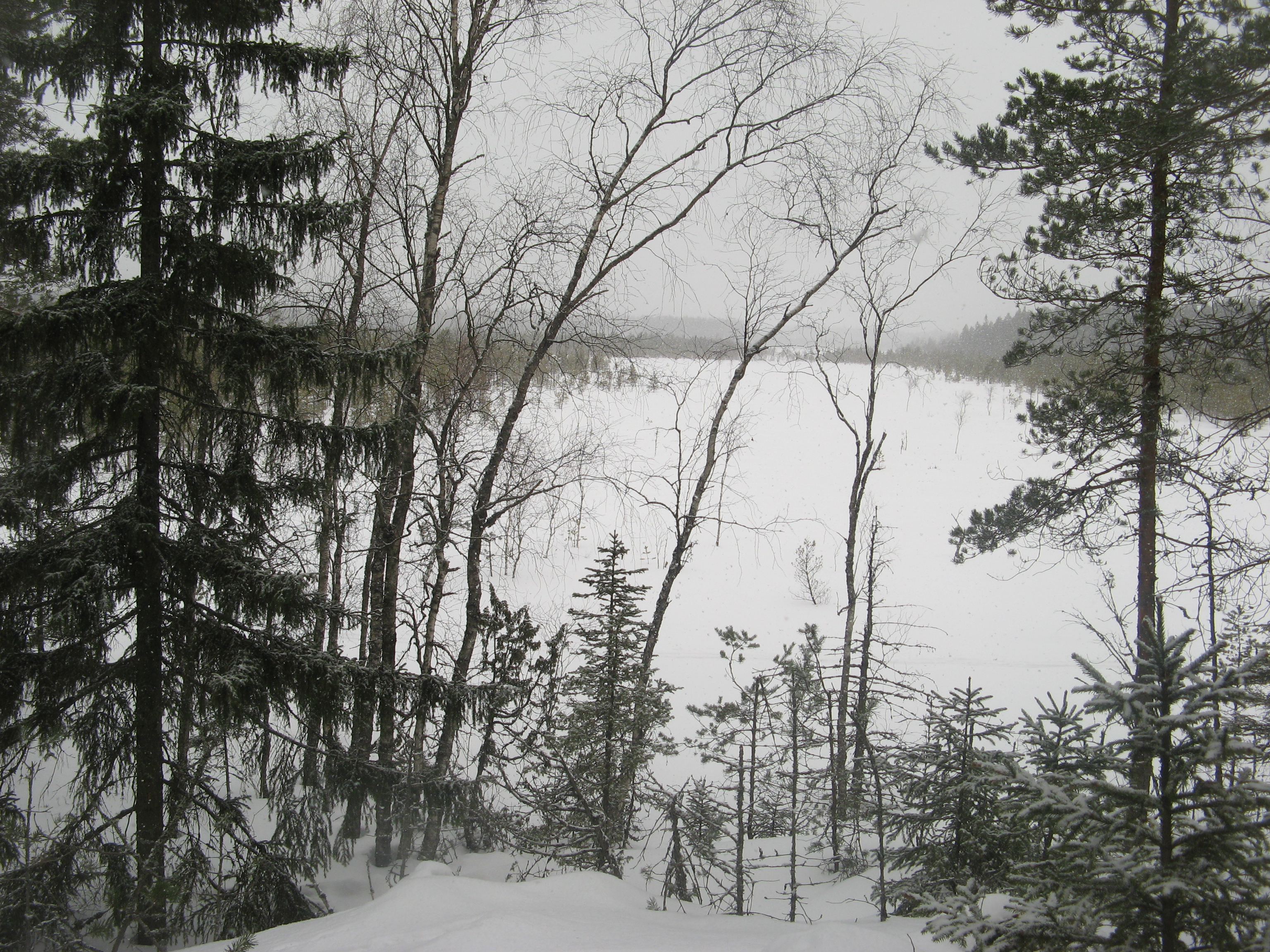 Bog in Kurjenrahka National Park. View to the north from a little hill in the middle of the Kurjenrahka area. Middle march 2010.